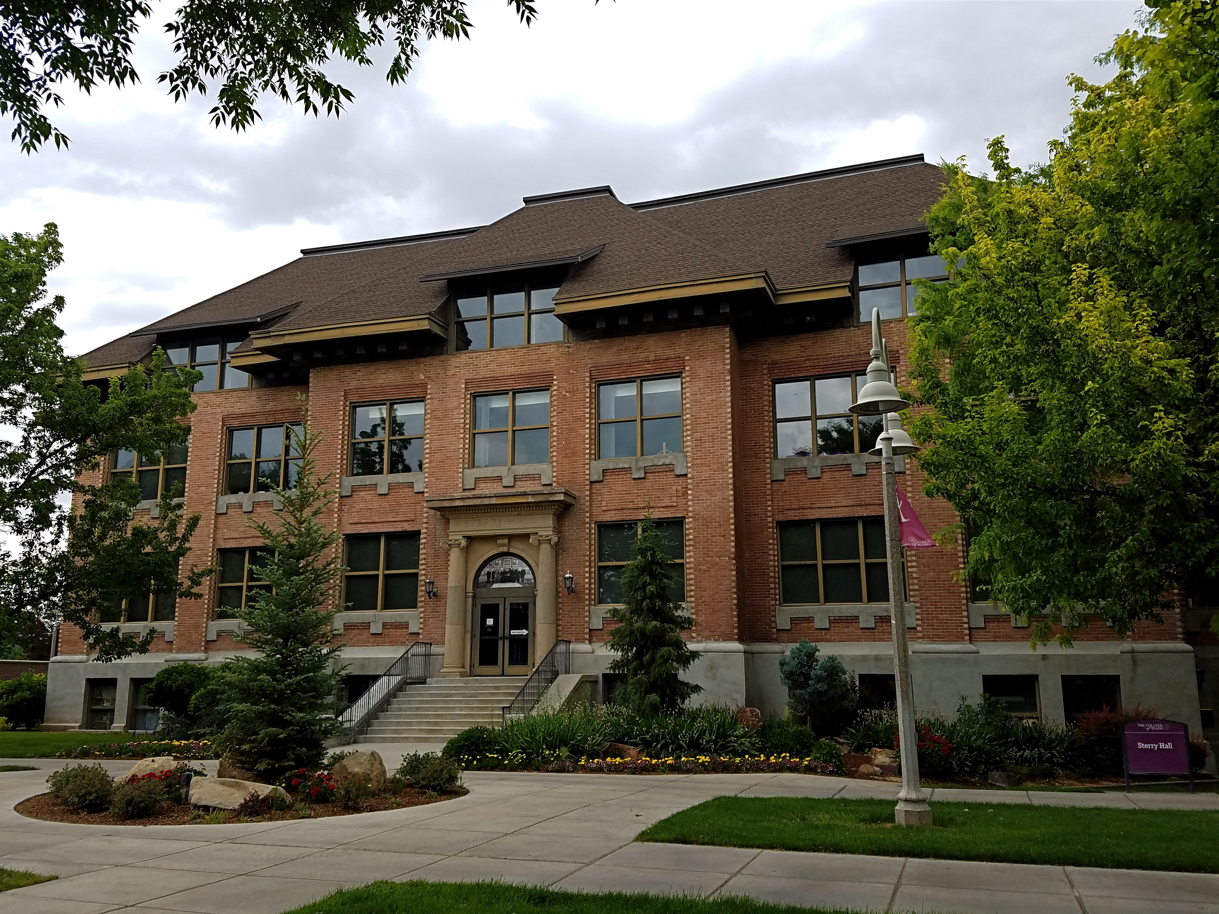 Sterry Hall at the College of Idaho, Caldwell, was designed by Nesbit & Paradice.